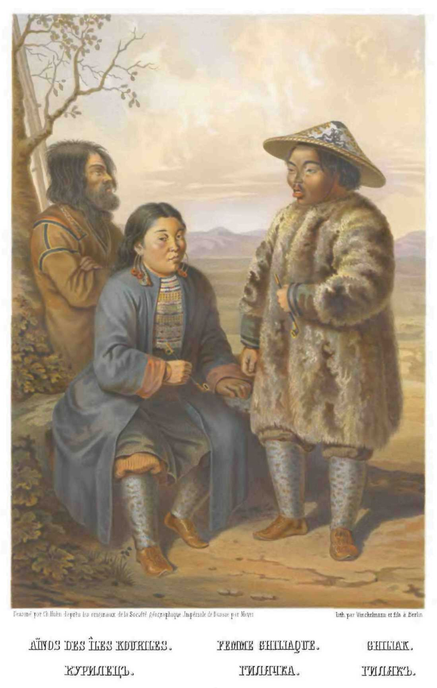 Ainu man (left) and Nivkh (Gilyak) couple. Populations of northern Japan and eastern Russia.